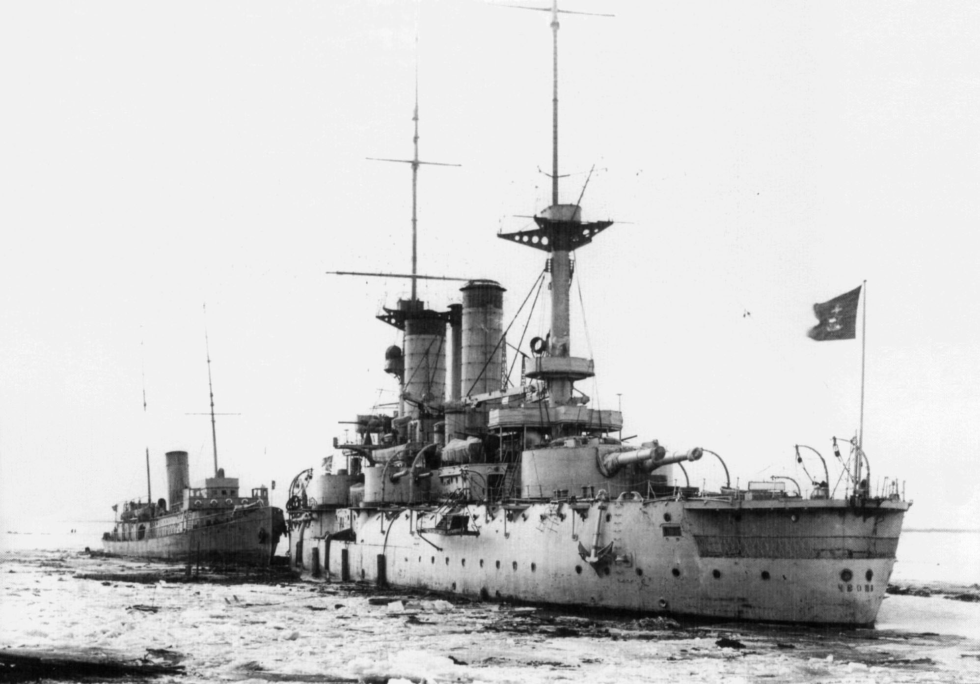 Soviet-Russian battleship Chesma, White Sea Flotilla, spring 1921.